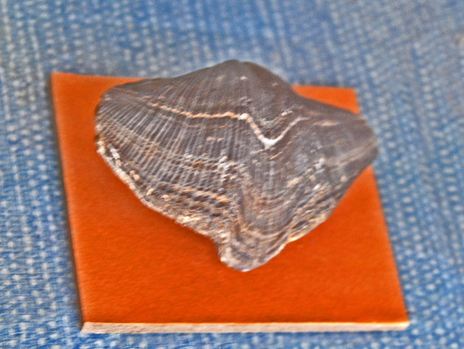 Fossil of Gypospirifer condor from Bolivia, on display at Gallery of Paleontology and Comparative Anatomy, Paris.